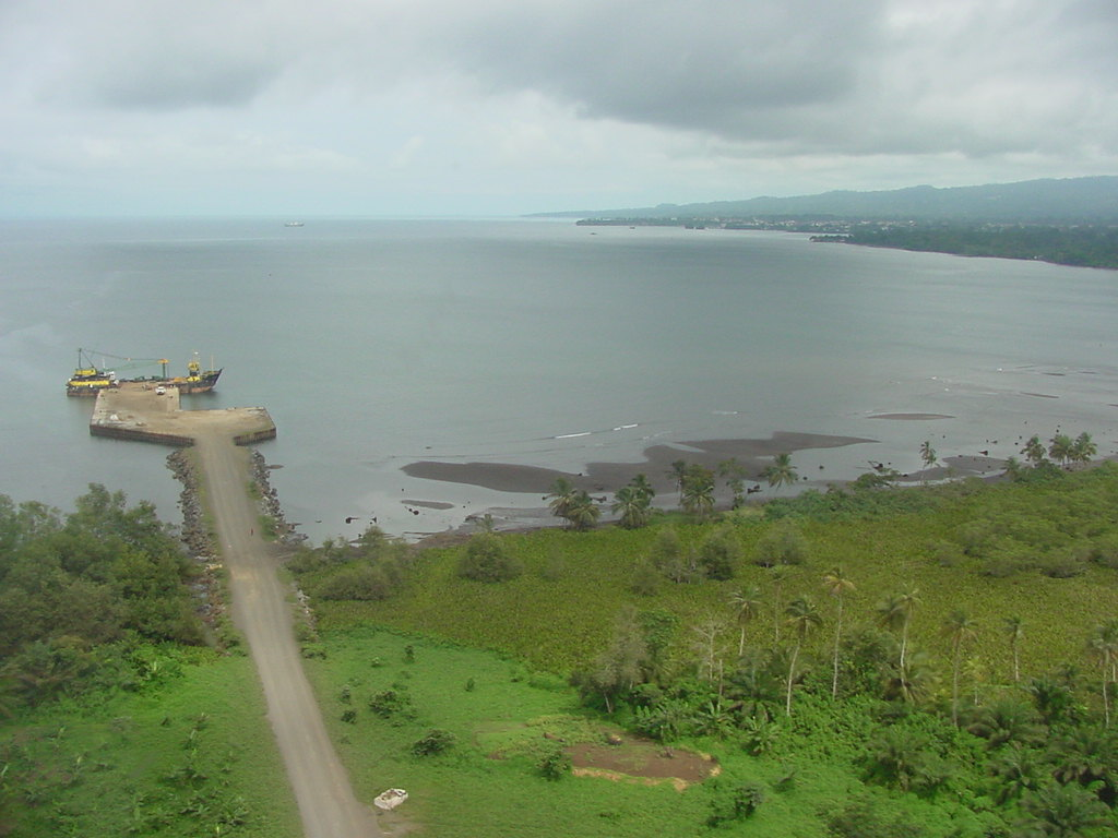 This was taken as I was flying back to camp